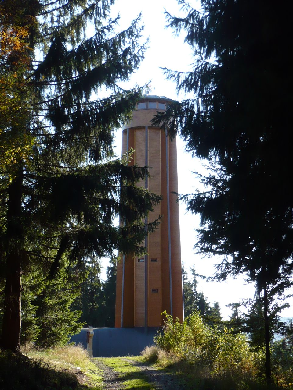 Krizova hora observation tower - view from path